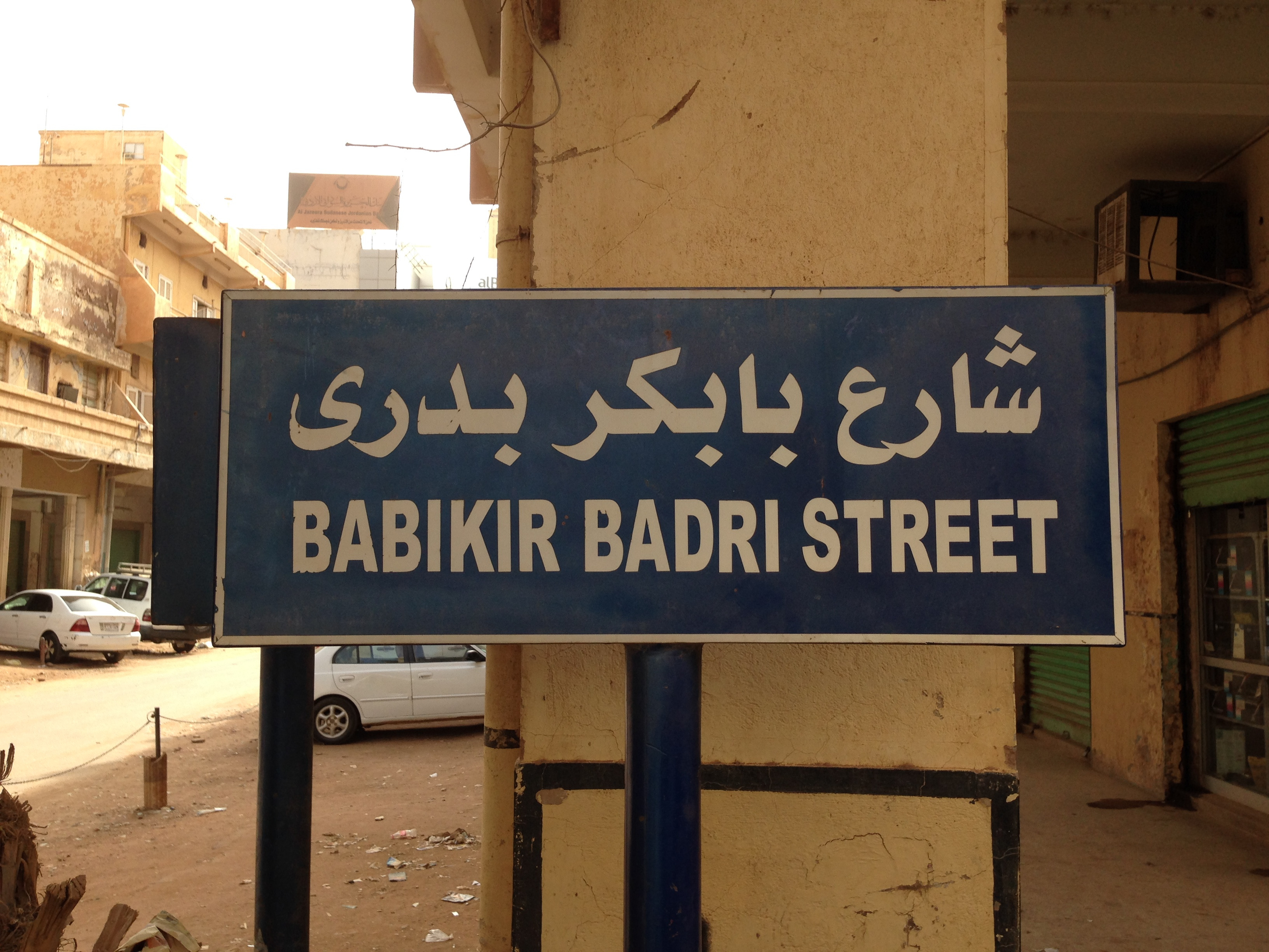 Sign of a street in Khartoum named after Babiker Badri (died in 1954), who was a Mahdist warrior who later became a social activist and laid the foundations for women's education in the Sudan.